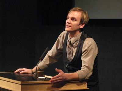 Lorin Morgan-Richards speaking at Bringing the Circle Together film series